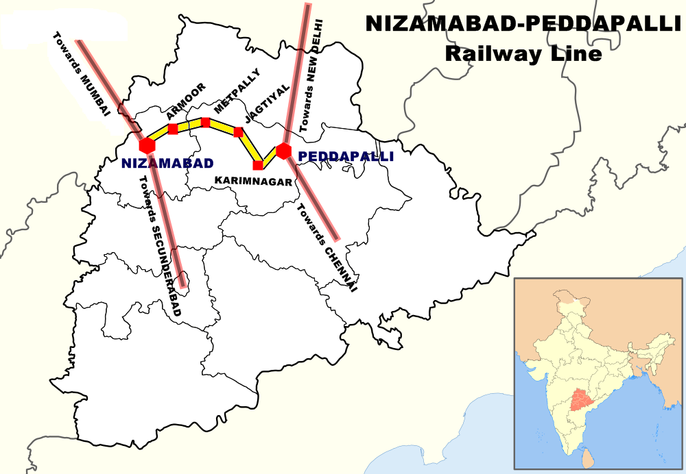 The Railway line which connects Nizamabad and Peddapalli. The map which I used for editing was free to use,modify and publish.